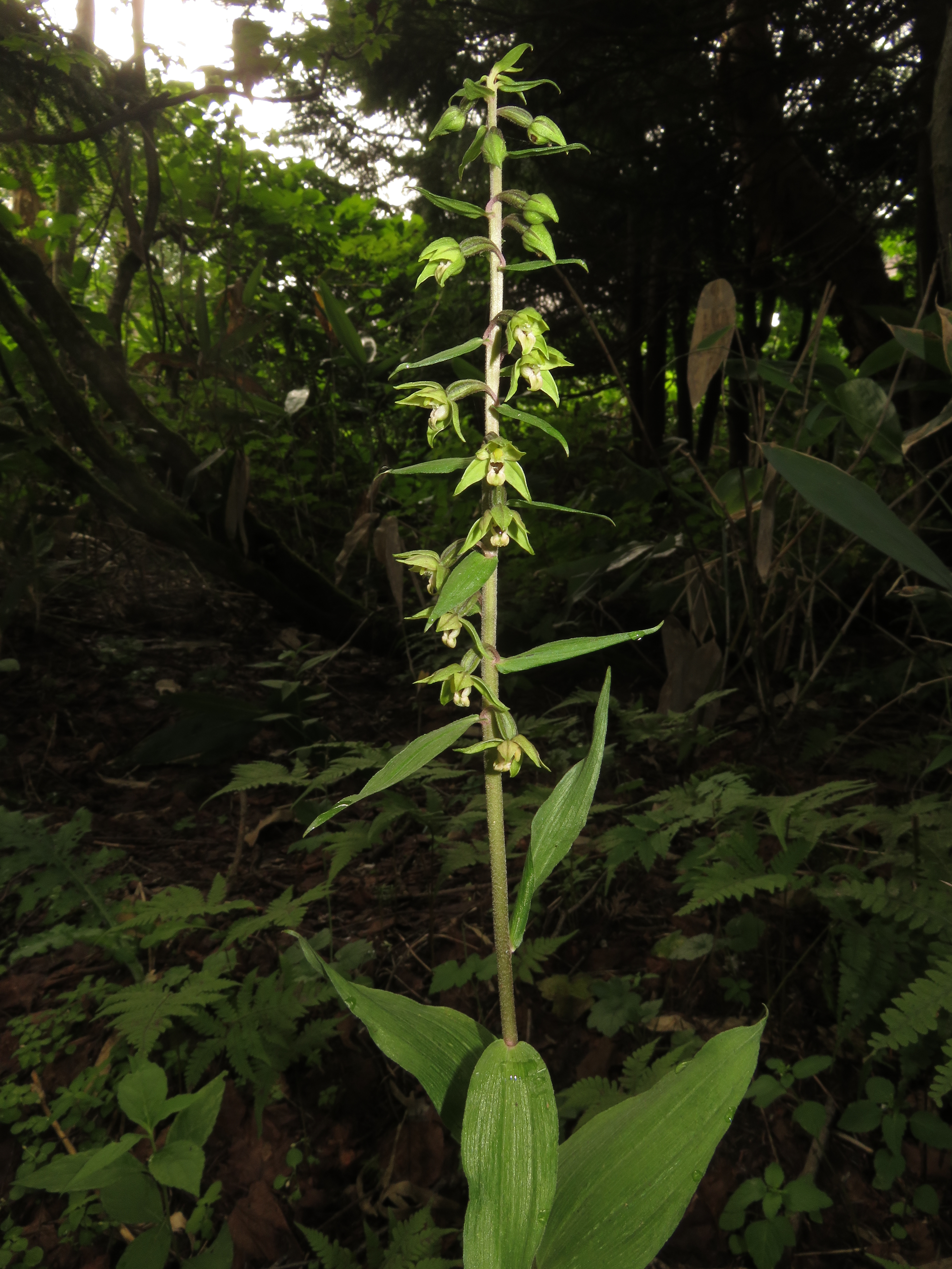 Epipactis papillosa, Oze, Fukushima pref., Japan